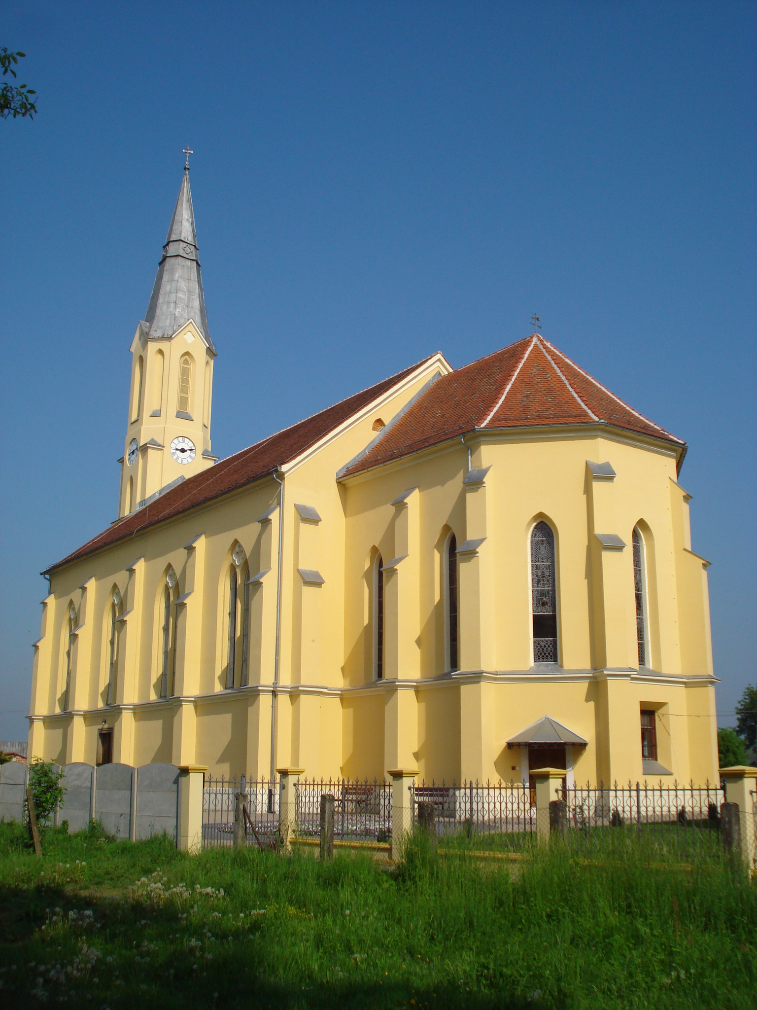 Church of the Visitation of the Blessed Mary the Virgin in Macinec village, Medjimurje County, Croatia